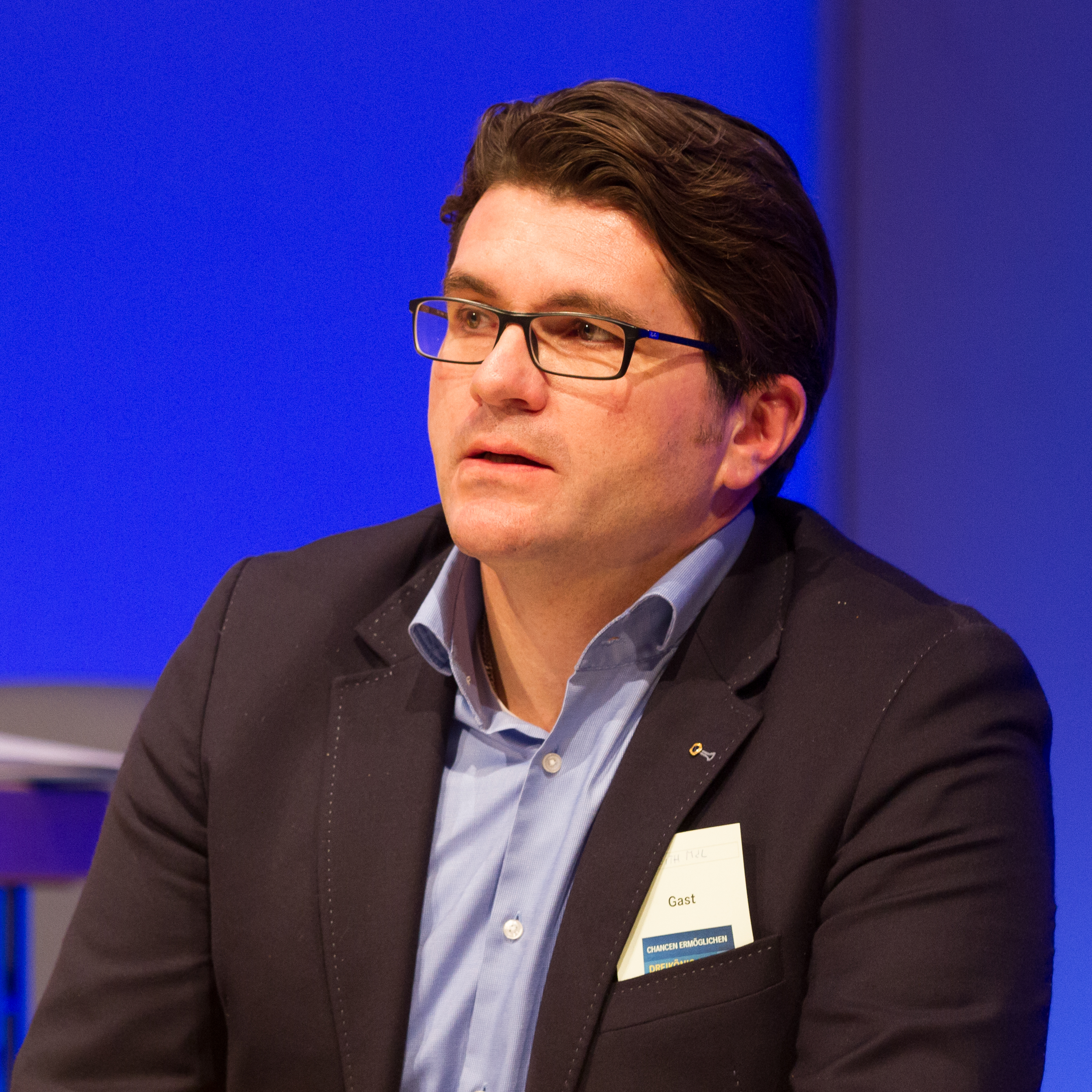 Series: 112th regular party convention of the FDP Baden-Württemberg in Stuttgart on January 5th, 2015 Image: Niko Reith